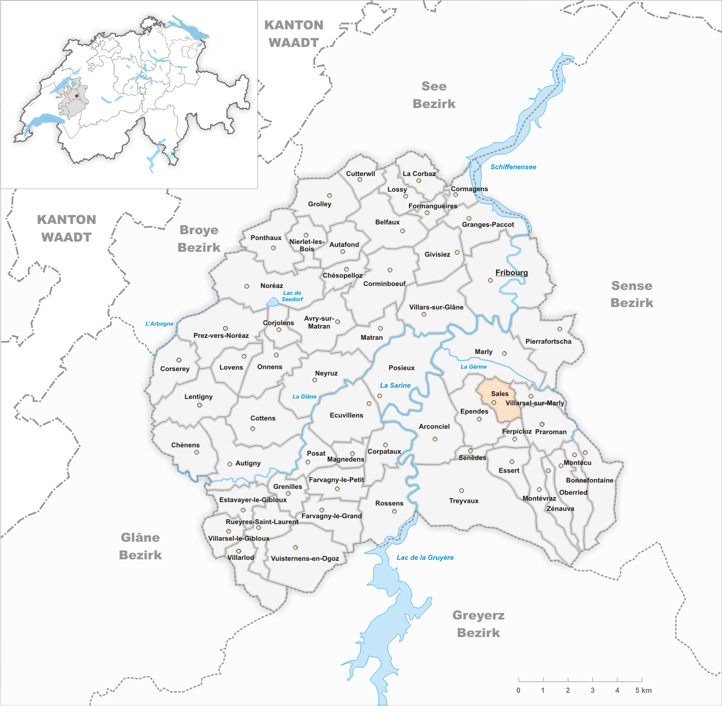 Municipality Sales Artist: Tschubby